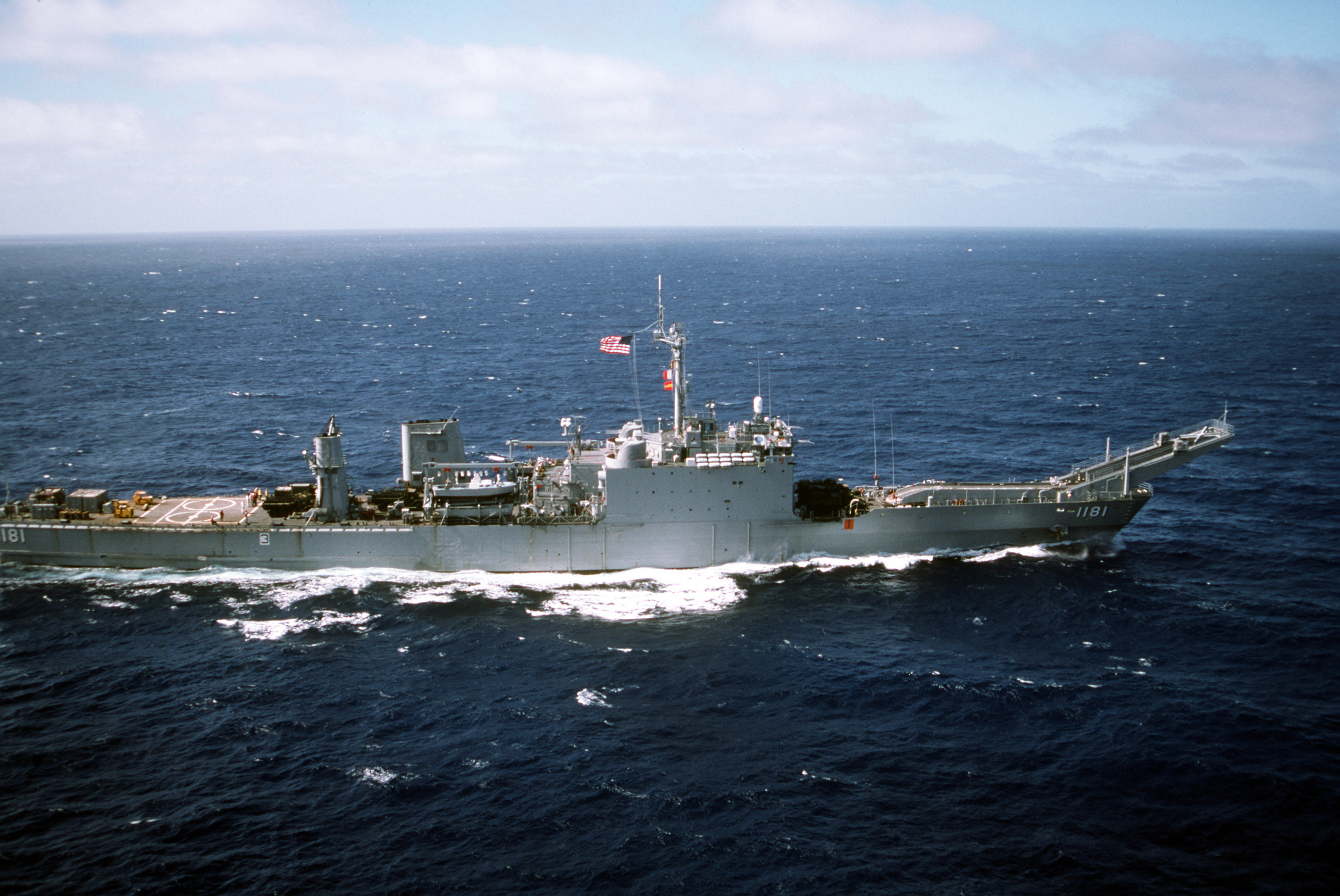 A starboard beam view of the tank landing ship USS SUMTER (LST-1181) underway. Elements of the 26th Marine Expeditionary Unit (26th MEU) are embarked aboard the SUMTER for a Mediterranean deployment.